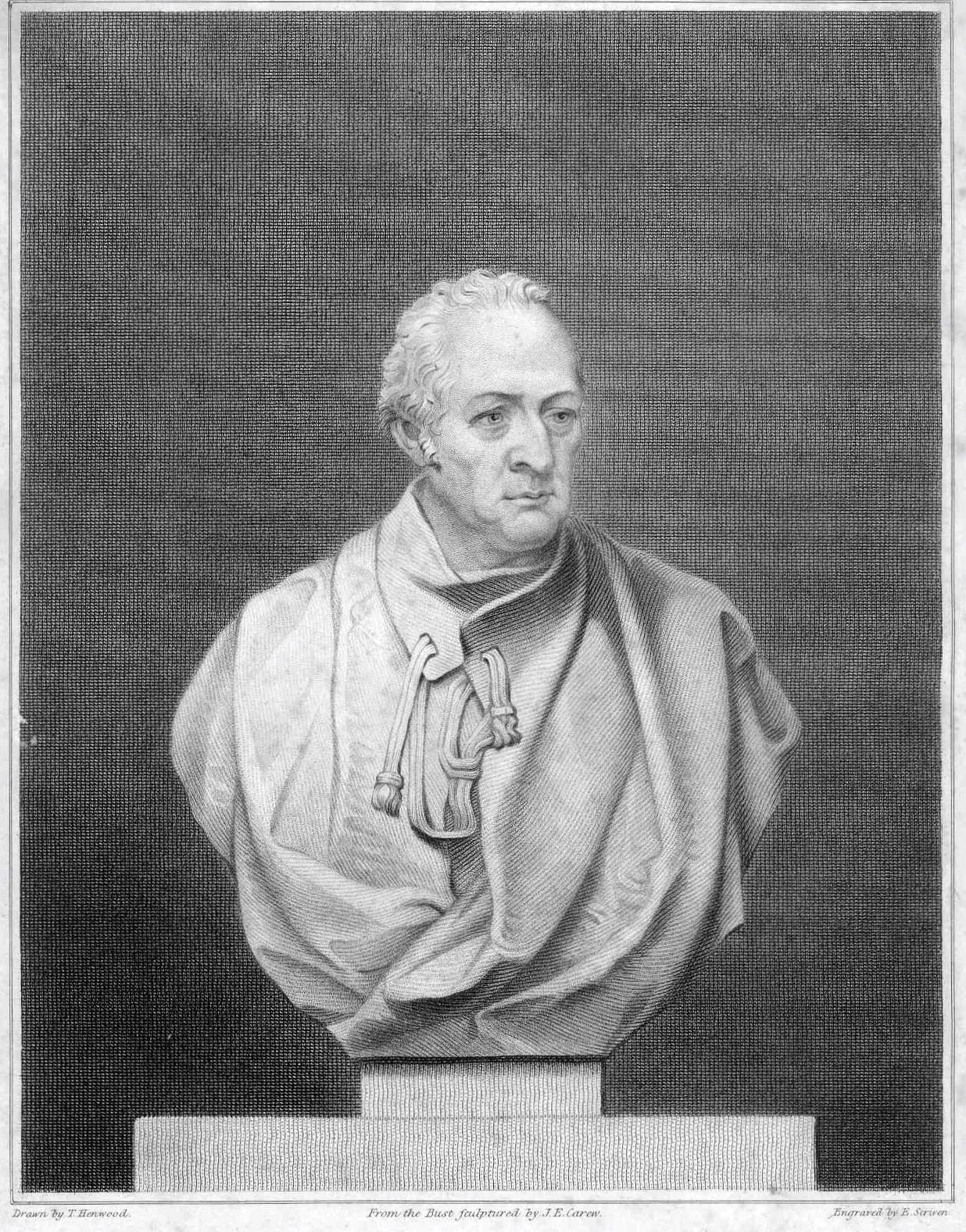 George Wyndham, 3rd Earl of Egremont. Engraving by E Scriven from a drawing by T Henwood of a sculpture by J E Carew. Published 1835.